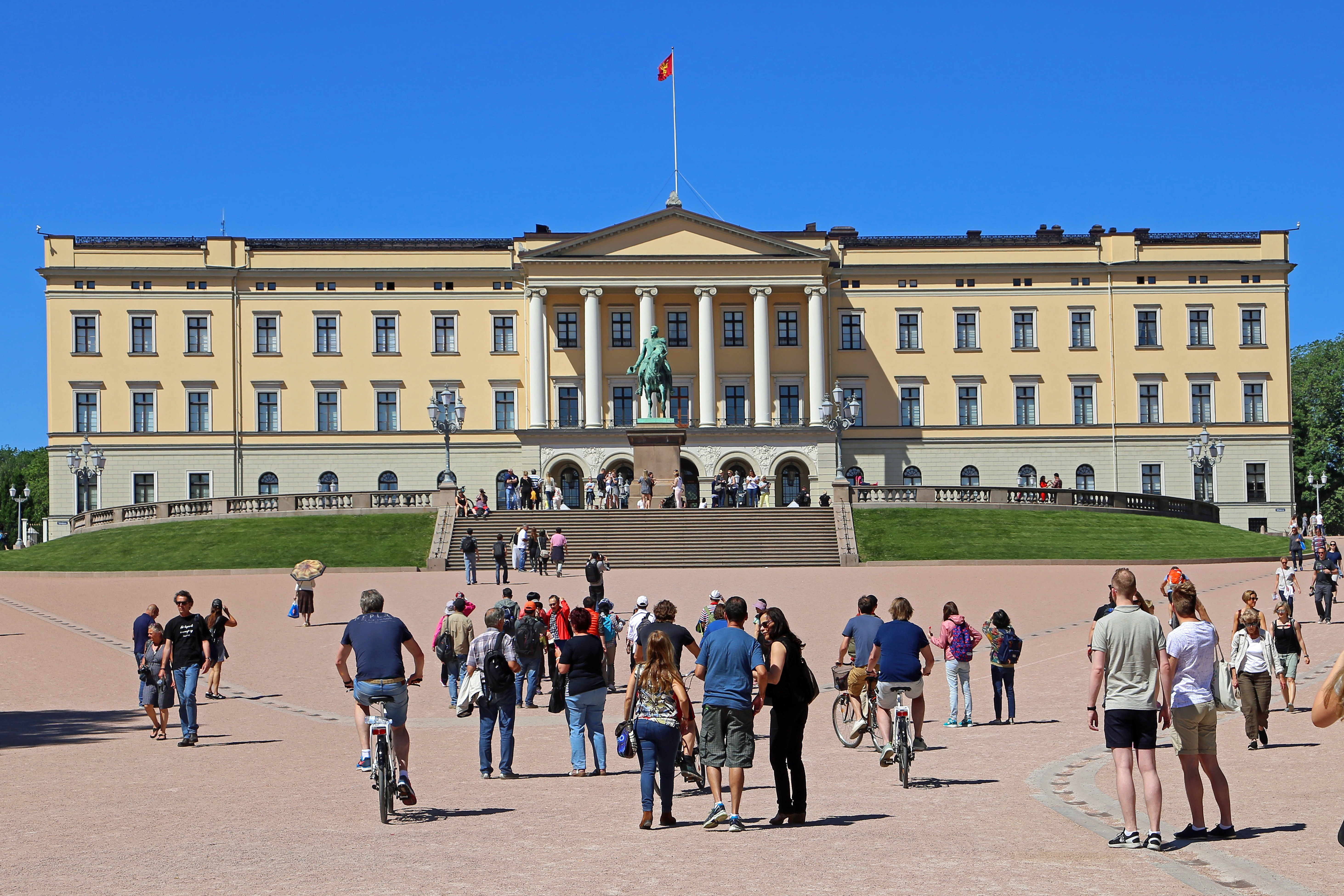 Castle of Oslo (main front with castle square). It serves as the royal palace of the king.